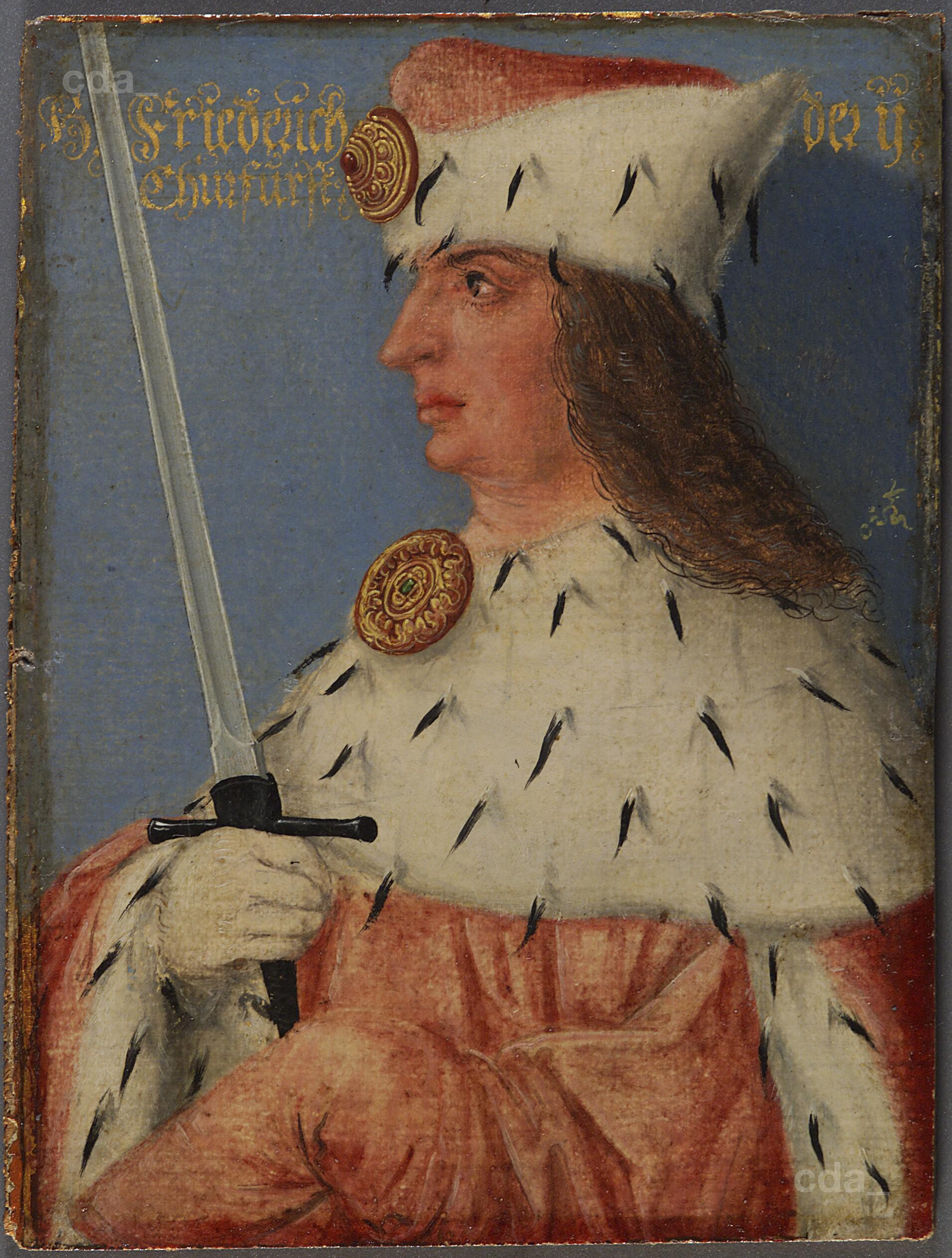 Friedrich II. the Gentle, son of Friedrich I., died 1464 The portraits by Cranach the Younger have a uniform blue background and a cast-shadow to one side of the sitter. As such they stand out from the other works in the series. Furthermore all 48 images are painted on canvas and not paper. They were later laminated onto wood and in isolated cases cardboard. The very uniform appearance of the reverse of all the portraits belonging to the series suggests that they were attached to the auxiliary support after entering the Ambras collection. Kunsthistorisches Museum, Vienna